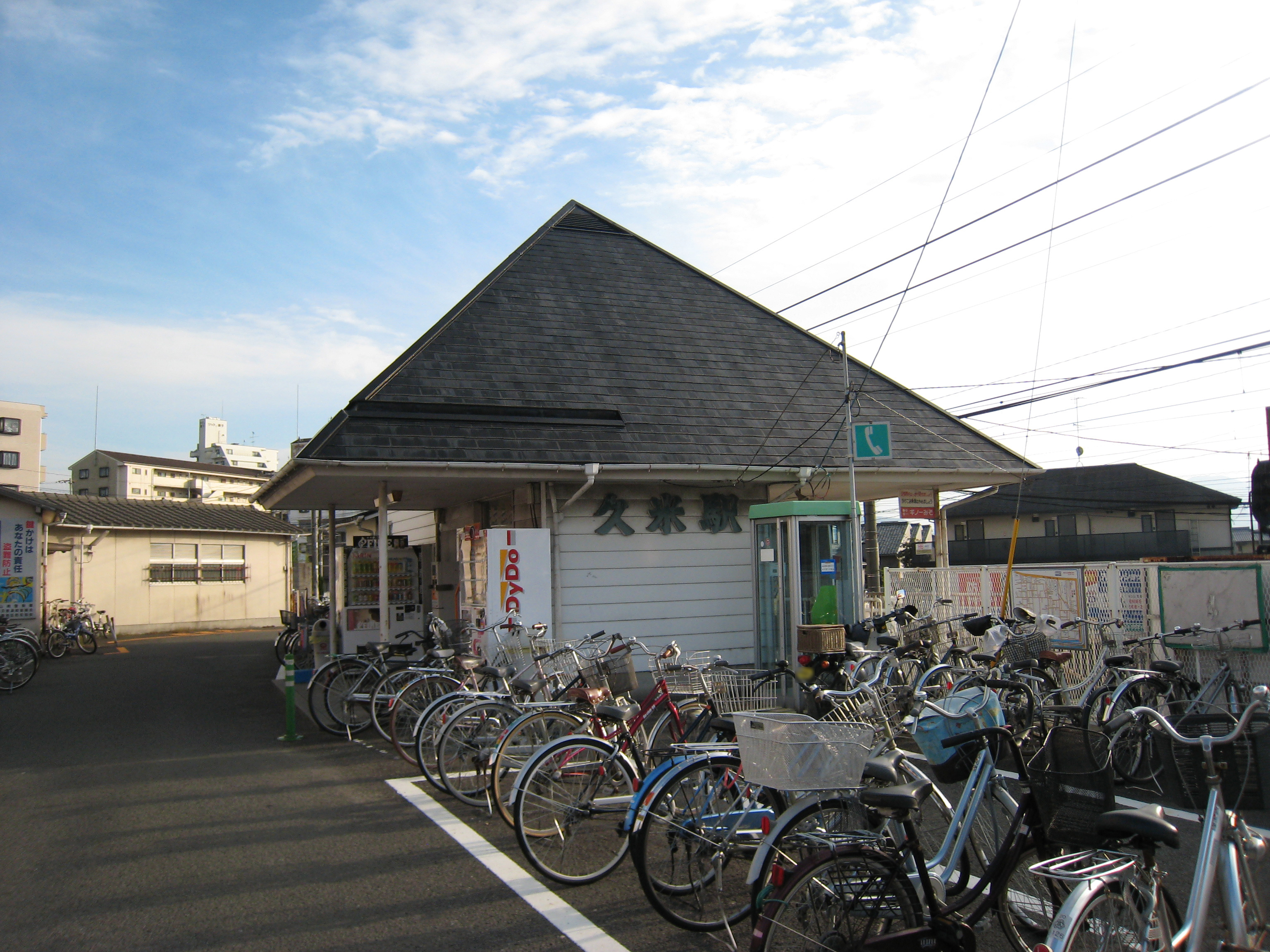 Iyo Railway [Sta.Kume]